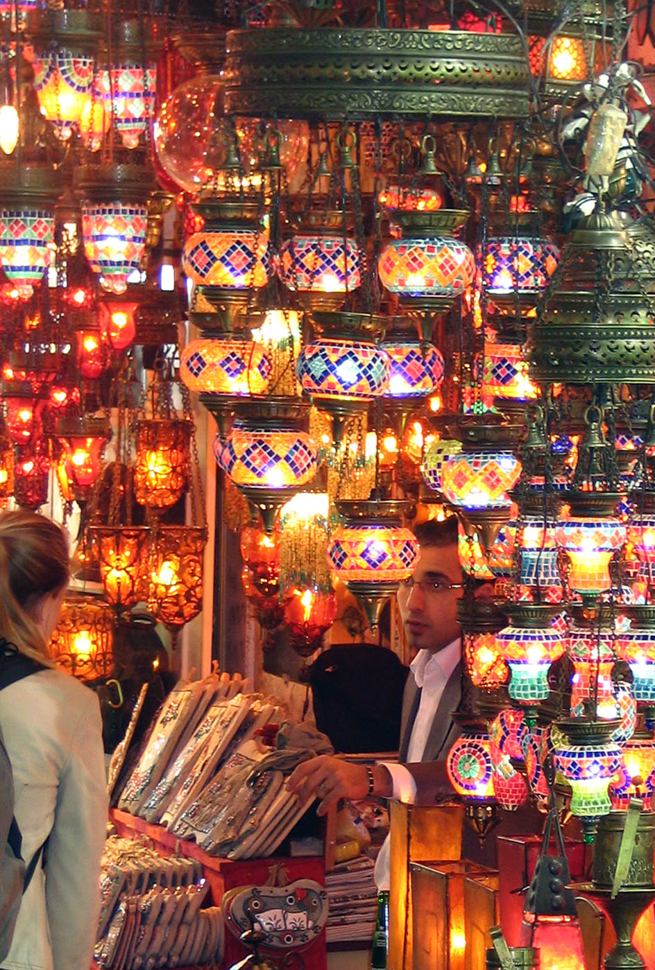 Lamps in the Grand Bazaar, Istanbul, Turkey. May 2006. Photo by Winstonza talk